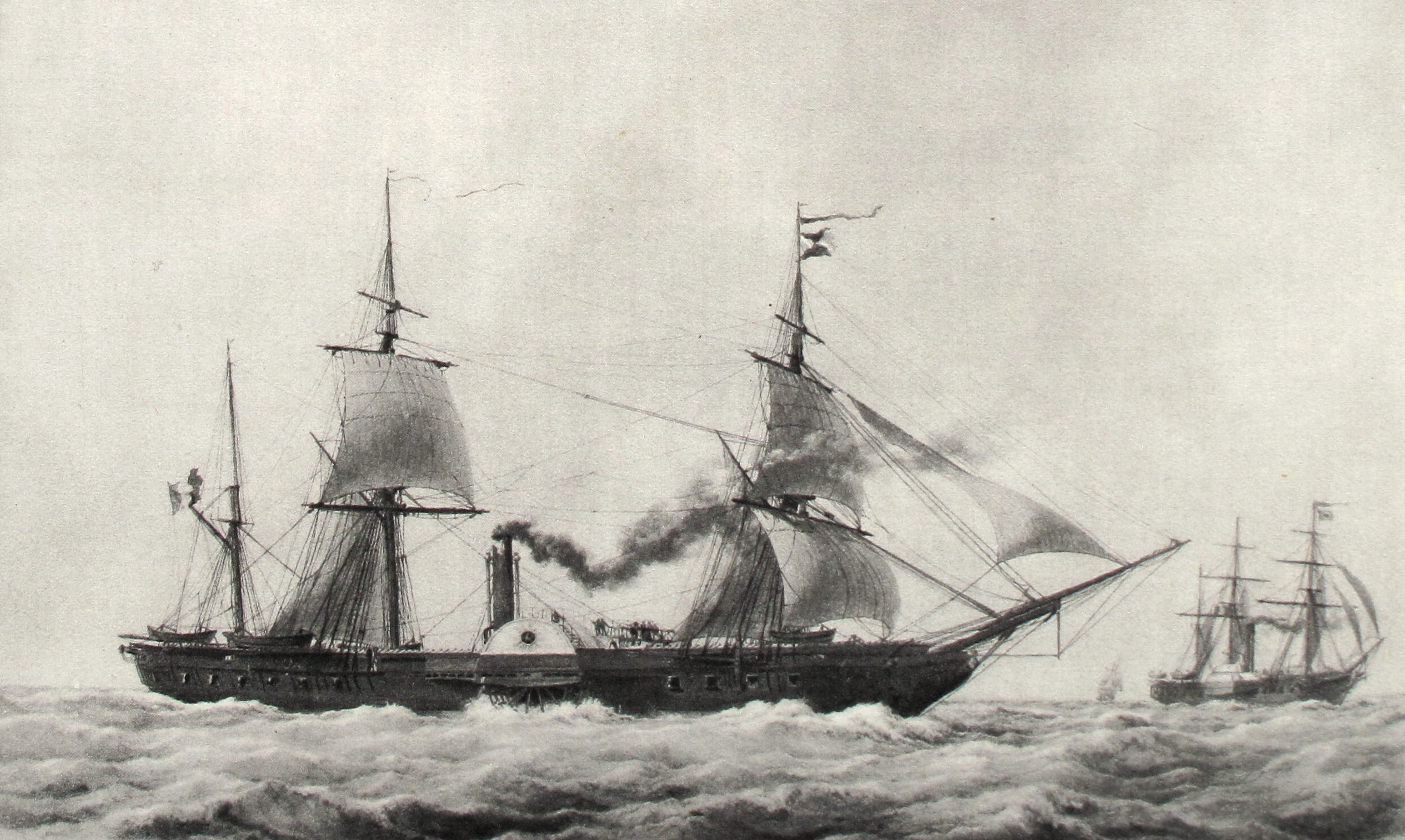 The Gomer